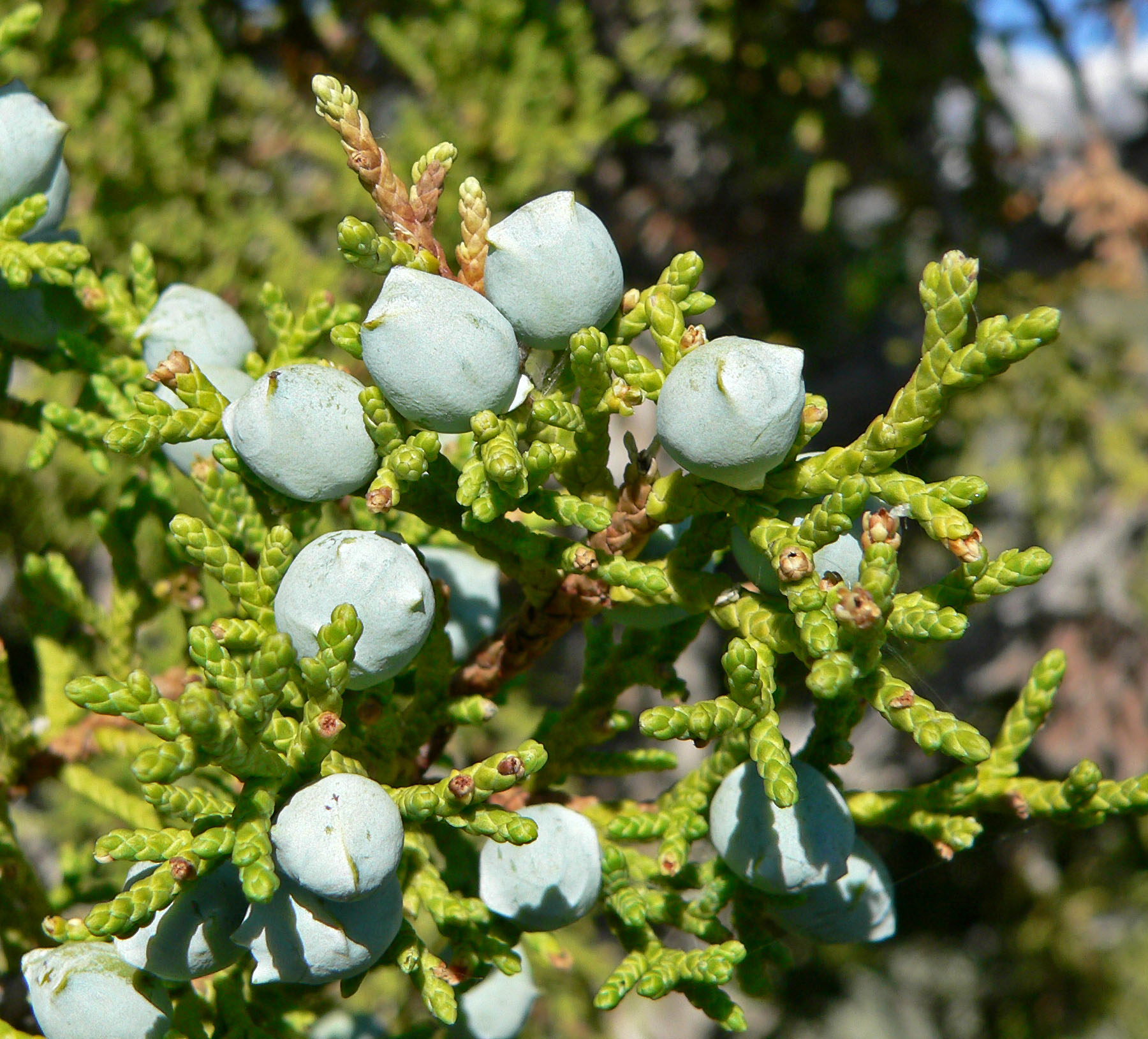 Juniperus osteosperma in Kyle Canyon, Spring Mountains, southern Nevada